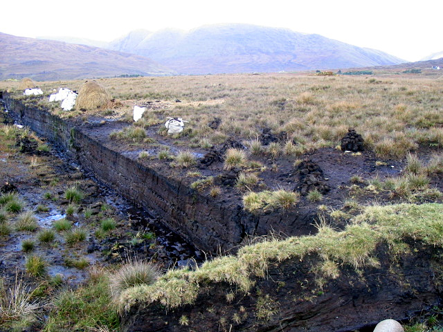 Peat once provided much of Ireland's energy needs. There will be no 'shrooms this Christmas.